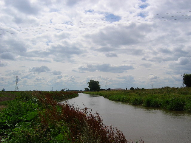 River Hull at Wawne, East Riding of Yorkshire, England.Looking to Sicey Farm on the west bank of the river which runs from the top NW corner of the grid square through the centre of the south edge. The village of Wawne takes up most of the top NE corner of the square